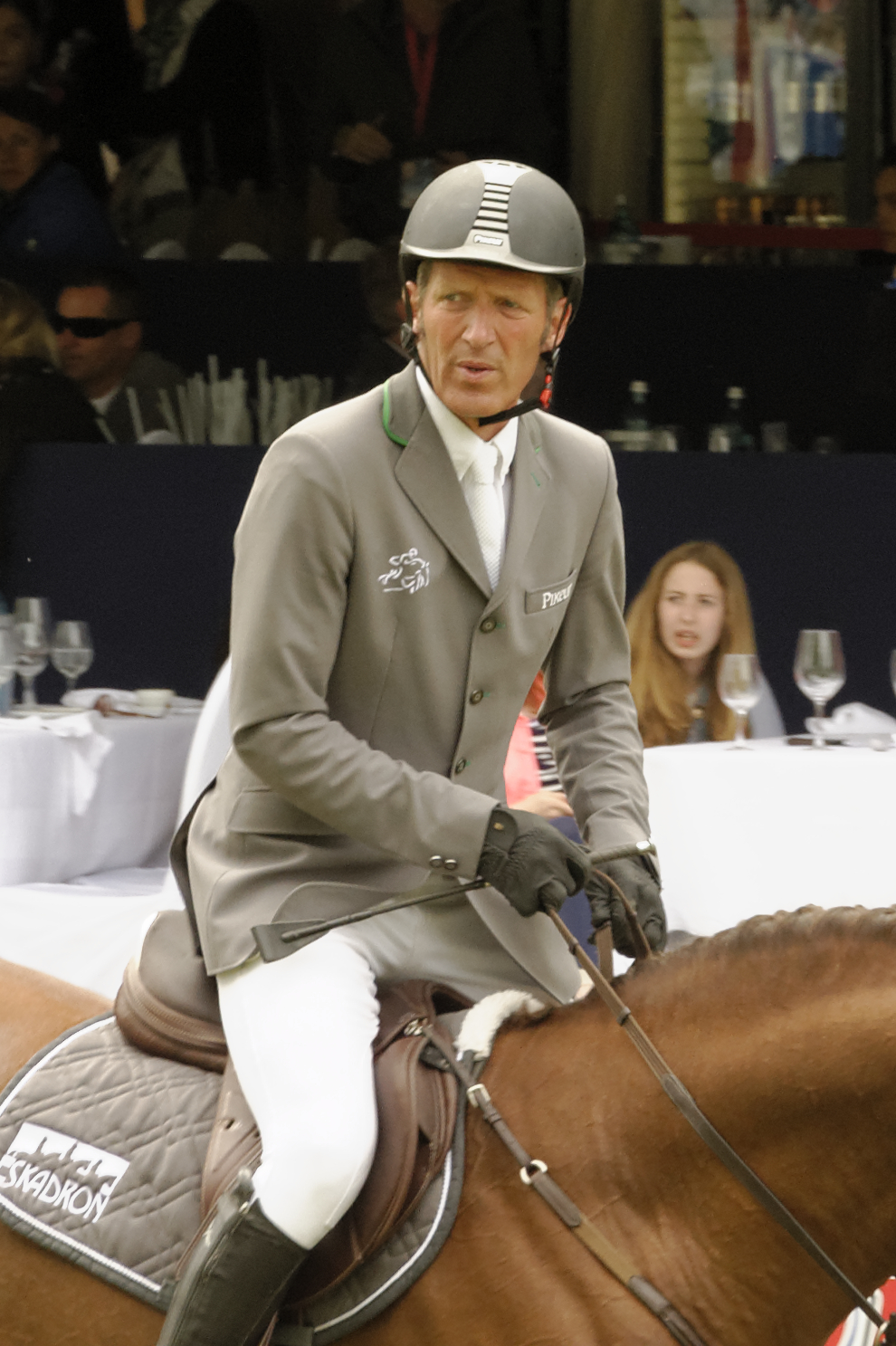 Internationales Pfingstturnier Wiesbaden 2013 The making of this document was supported by the Community-Budget of Wikimedia Germany.